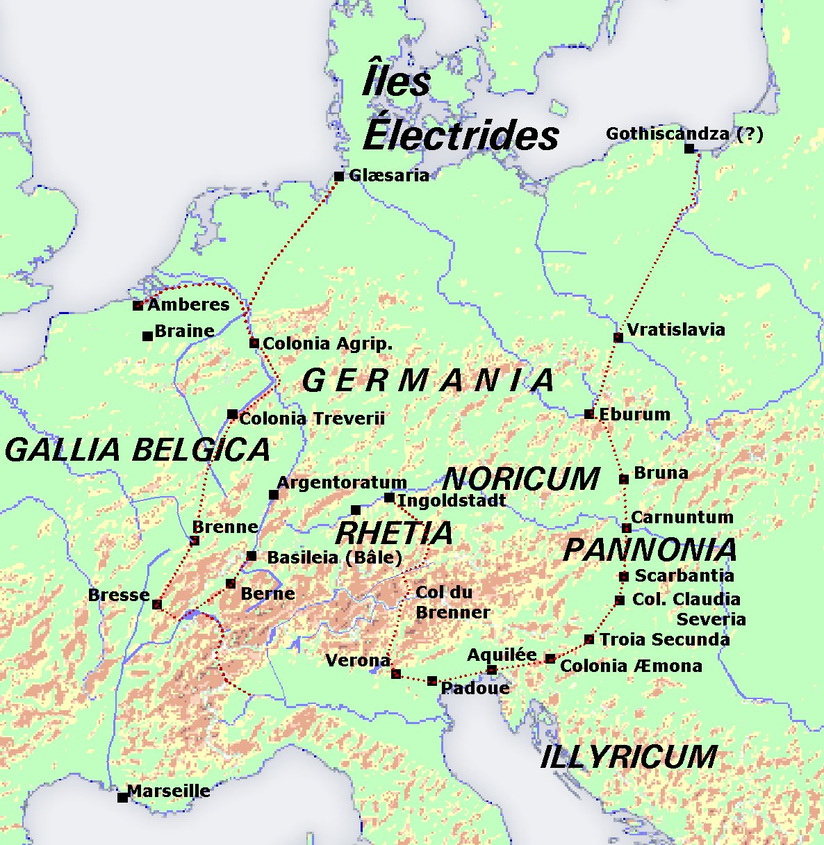 Map of the Amber Road